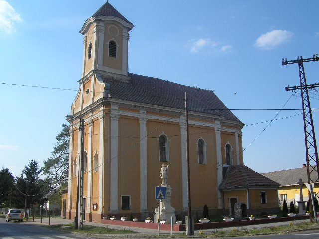 Bakonyszombathely; Saint Emeric roman catholic church